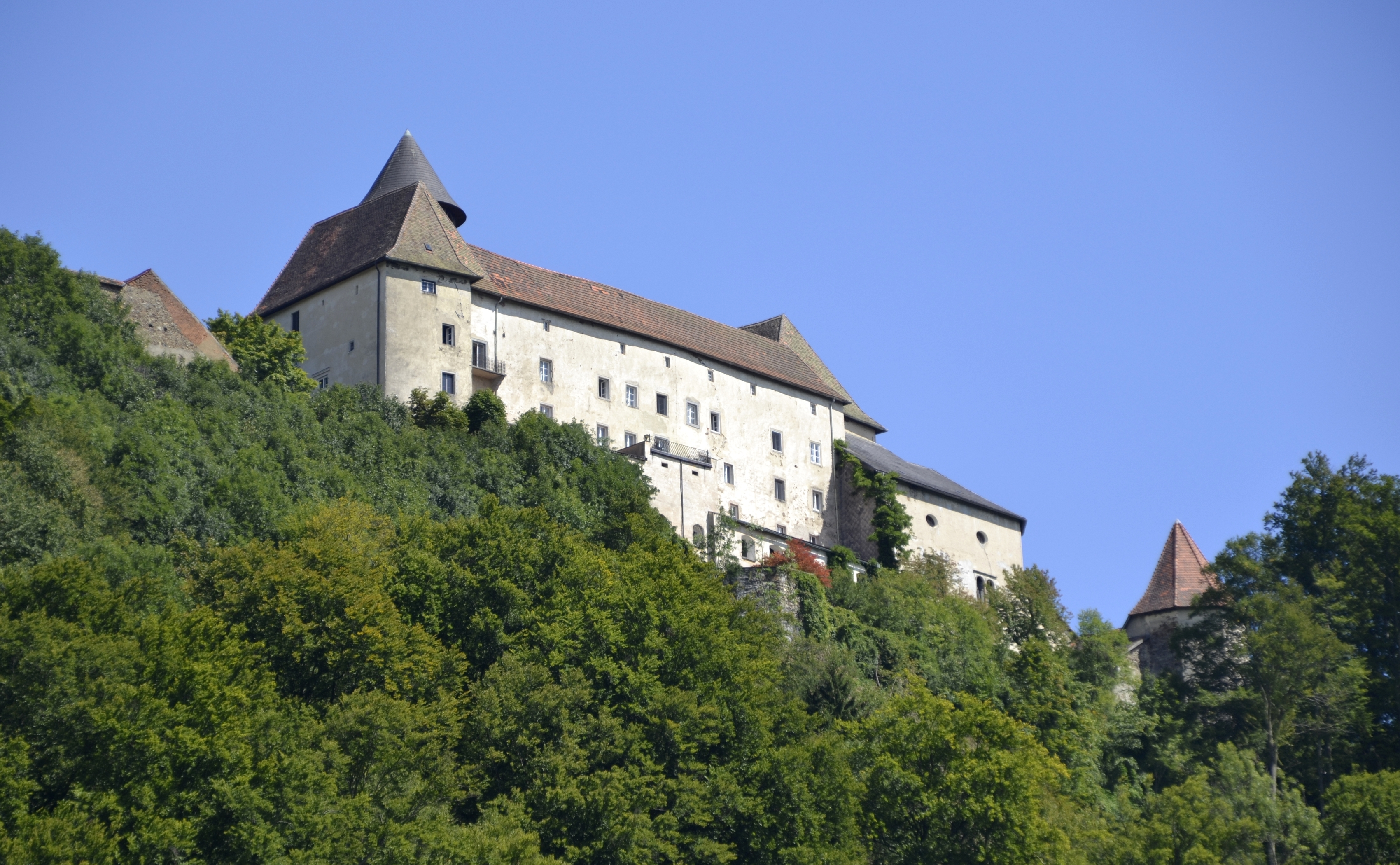 Rannariedl Castle in Rohrbach District, Upper Austria.